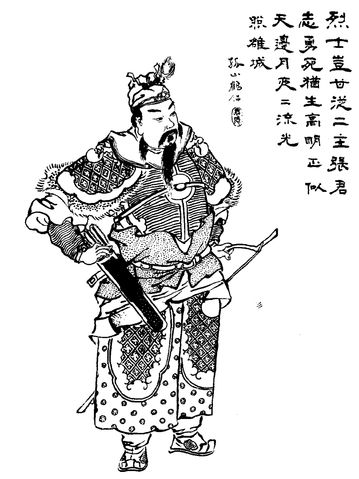 Qing dynasty portrait of Zhang Ren